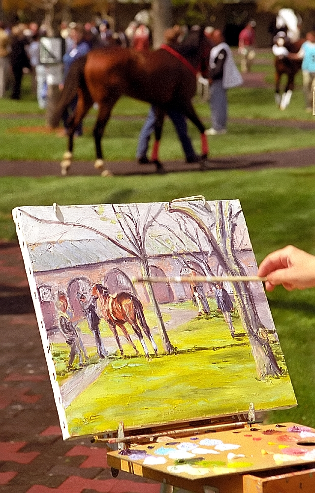 Lexington Kentucky - Keeneland Race Track "Painting the Paddock"